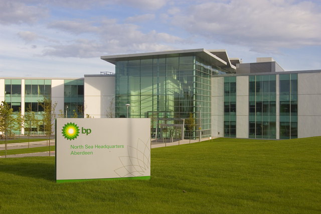 BP North Sea Headquarters The brand new (summer 2008) office buildings housing BP's north sea operations, built by the Bowmer and Kirkland group at a cost of £50 million.